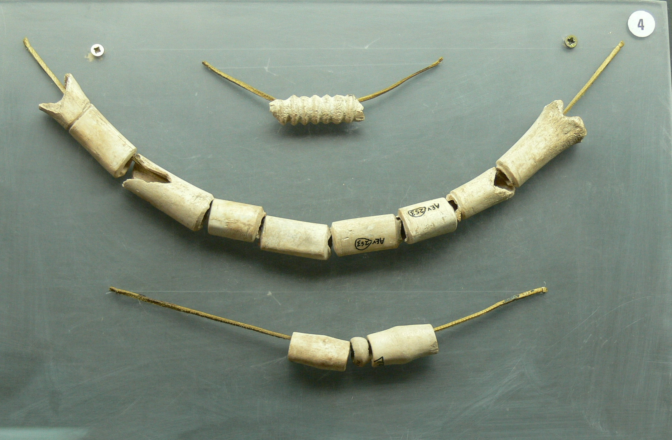 Kyrenia castle ( Northern Cyprus ). Archaeological museum: Objects of the neolithic site at Vrysi - bone beads.